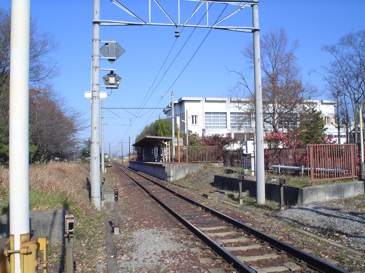 Daigaku-mae Station in shiga pref, japan